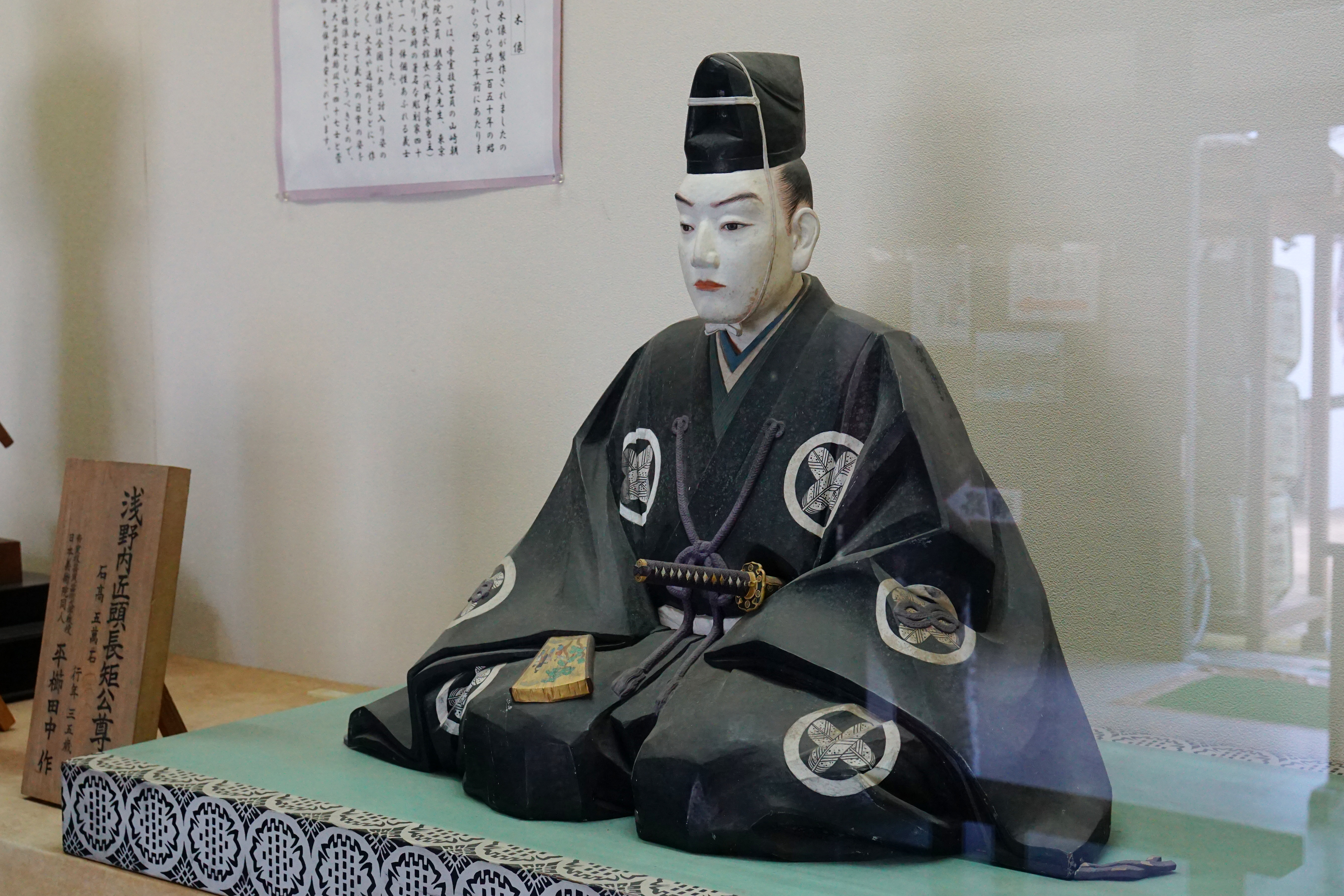 Ako-Oishi-jinja in Ako, Hyogo prefecture, Japan.